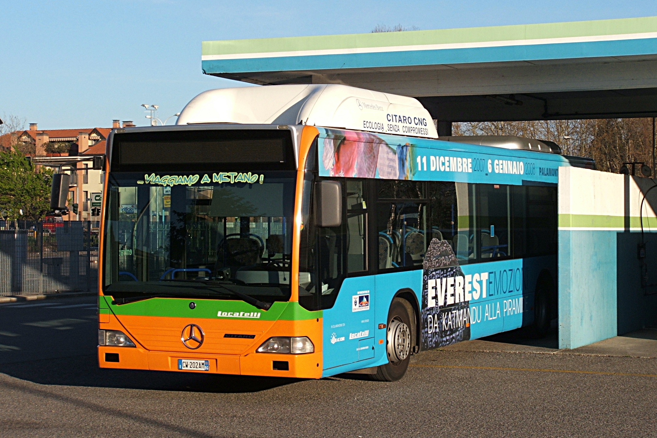 Natural gas bus in Bergamo – Italy.